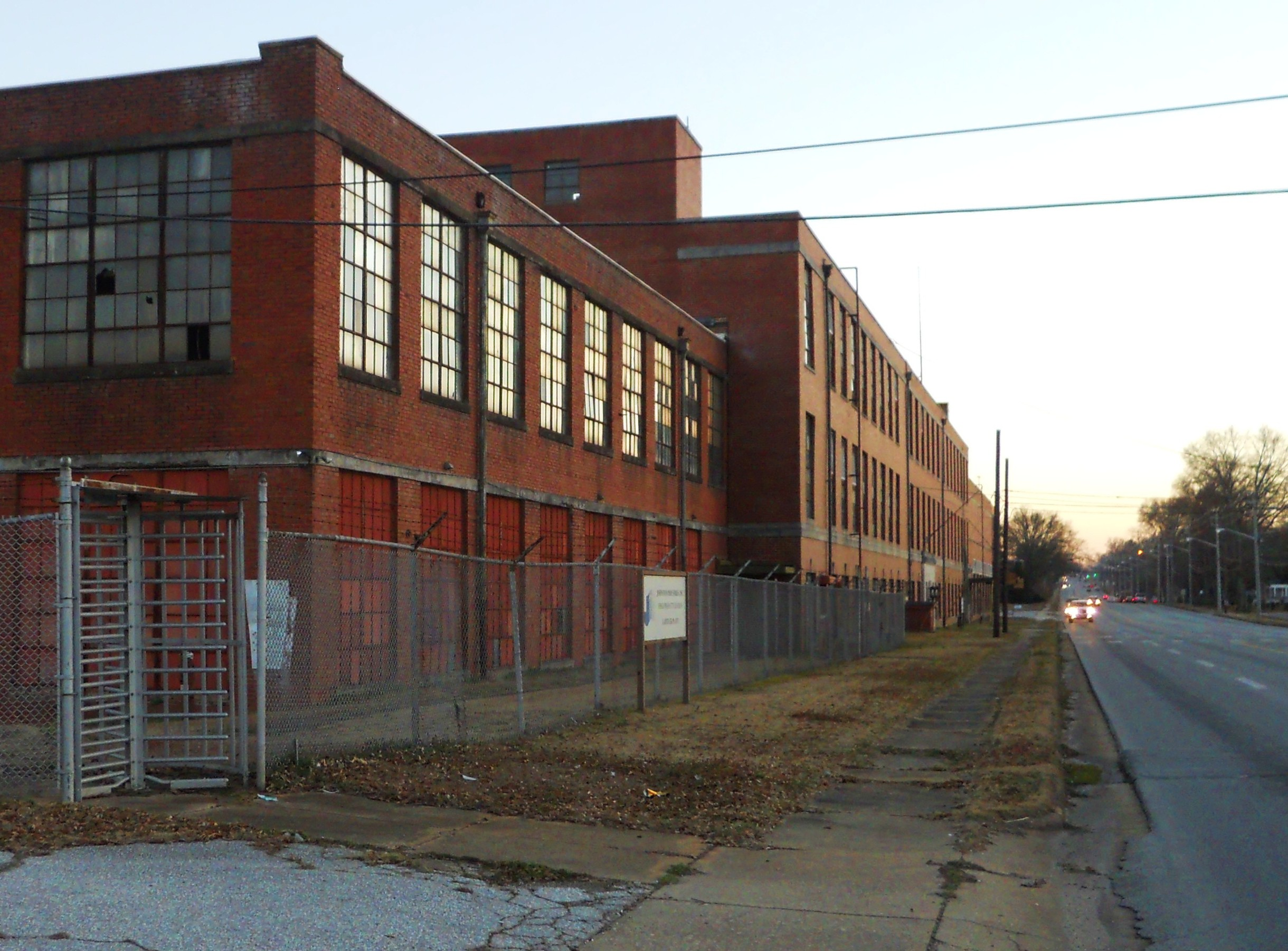 This is a photo of the abandoned Johnson Industries Fiber Products Division Lantuck Plant in Lanett, Alabama.